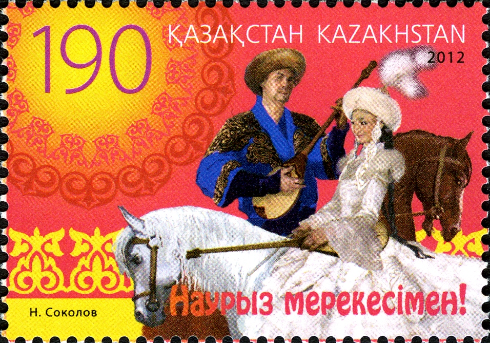 Stamps of Kazakhstan, 2012